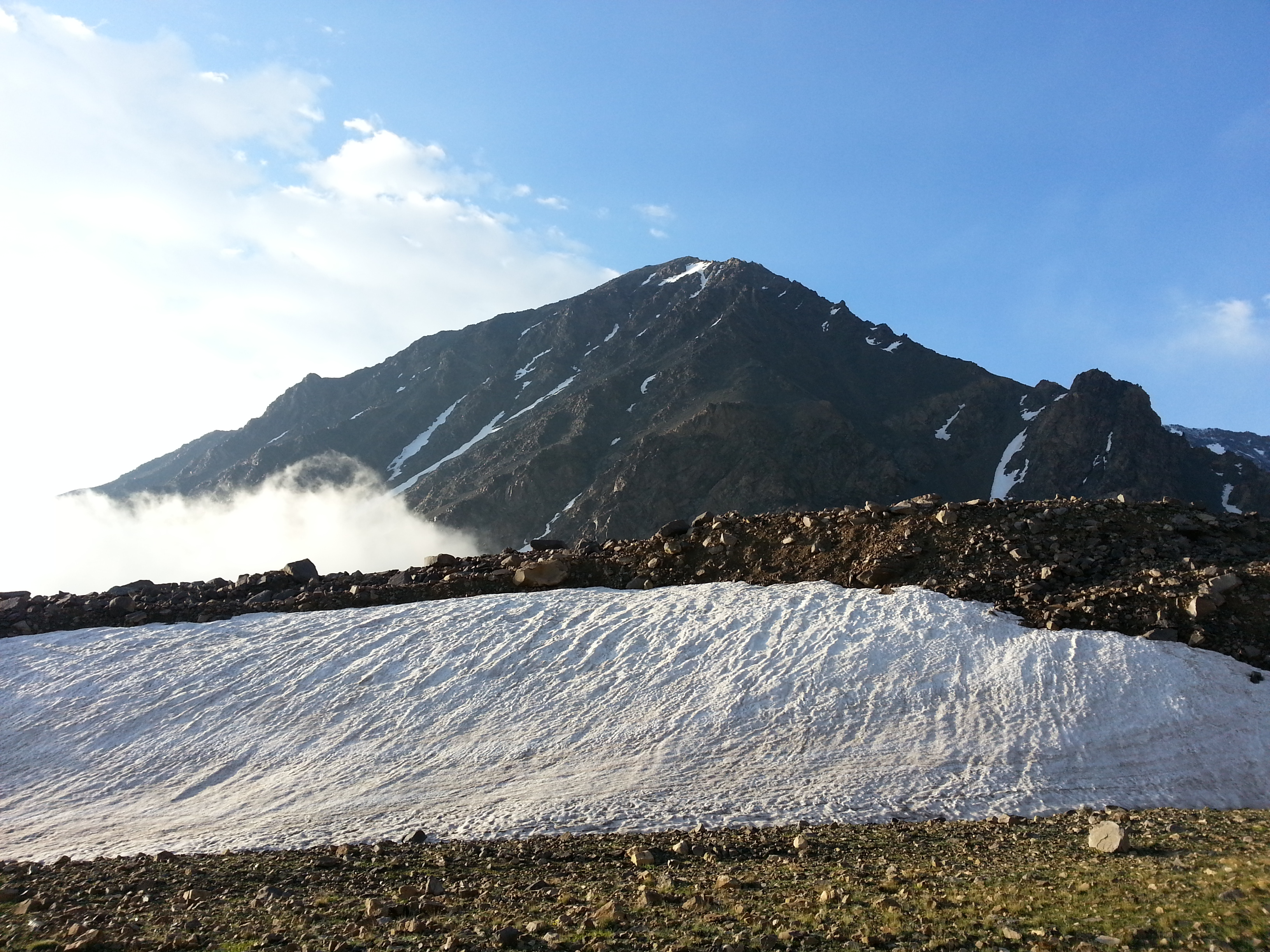 Siah-Kaman summit located in Takht-e Suleyman Massif in Alborz Range with 4472 meters height.